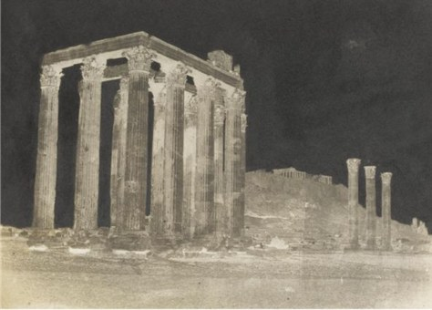 A calotype (early negative) of the Temple of Jupiter by George Wilson Bridges[George Wilson Bridges] in 1848.